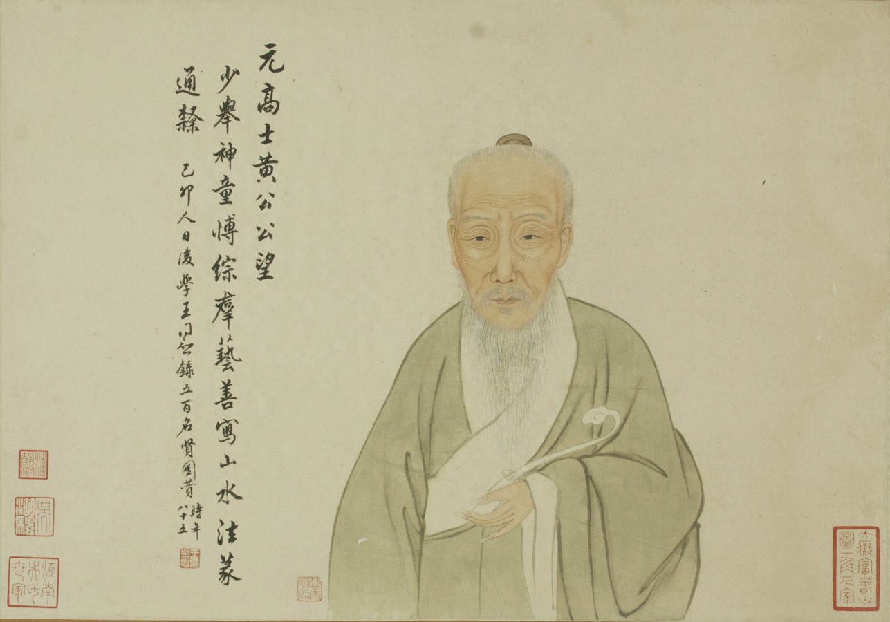 Huang Gongwang's portrait